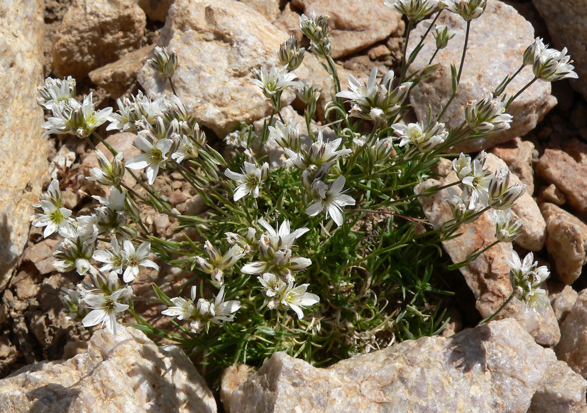 Eremogone congesta var. charlestonensis amongst the quartzite rocks in the mine workings at the end of road 592(?), about 1.5 km NNE of Mount Stirling, Spring Mountains, southern Nevada (elev. about 2100 m); while var. subcongesta is also known from these mountains, var. charlestonensis is suggested by the compactness of the inflorescence and the spinose sepals